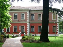 South facade of Villa Calcaterra in Busto Arsizio (Ita), headquarter of the Istituto Cinematografico Michelangelo Antonioni